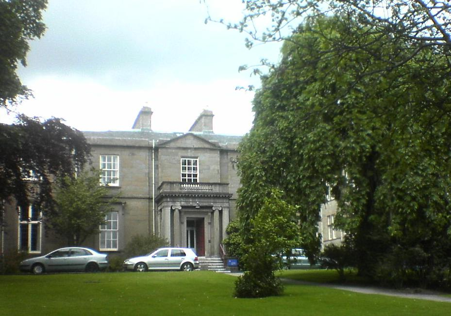 The Ellenbank building, former home of Dundee University Students' Association at the University of Dundee. Taken by myself - 28 June 07.